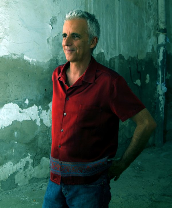 Portrait of the spanish singer "Kiko Veneno"